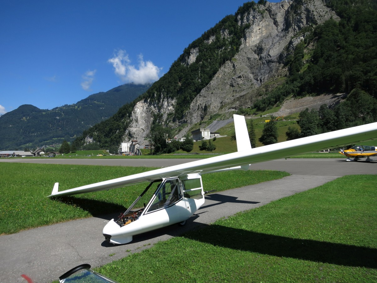 electrified version of the archaeopteryx - at Mollis airfield;Other information